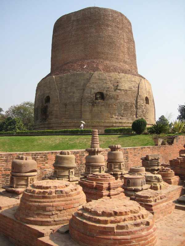 Stupa - Sarnath (Buddhist historical and religious site)